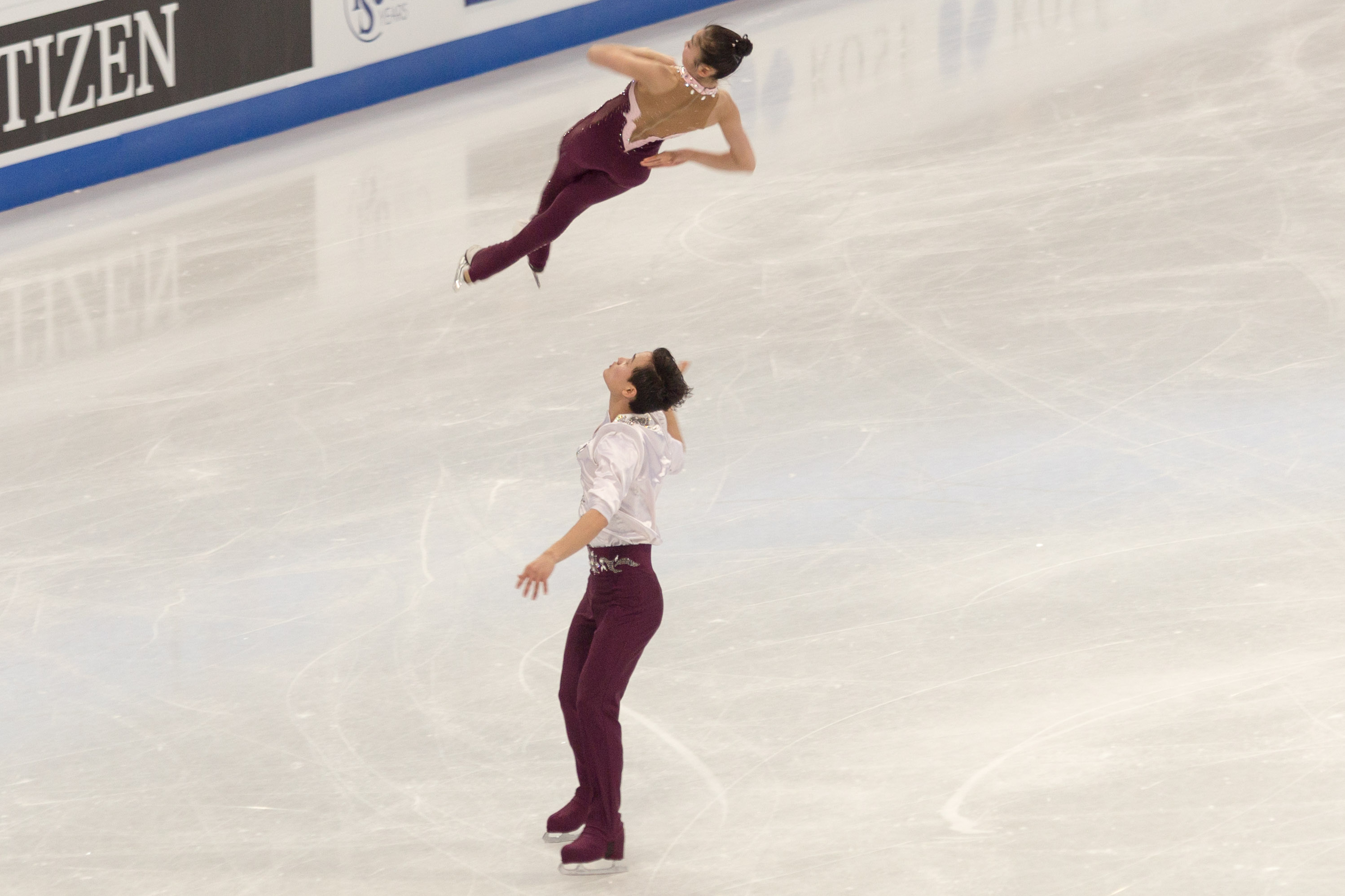 Tae Ok Ryom/Ju Sik Kim (PRK) are caught at the zenith of a twist during their free skate at the 2017 World Figure Skating Championships